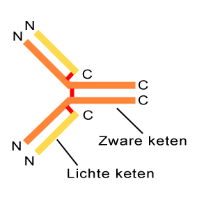 Basic structure of immunoglobulin. N is amino terminus, c is carboxy terminus